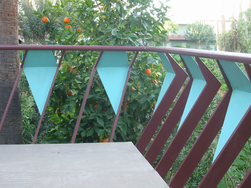 Handrails on an external stair landing at the Hotel Valley Ho in Scottsdale, Arizona.